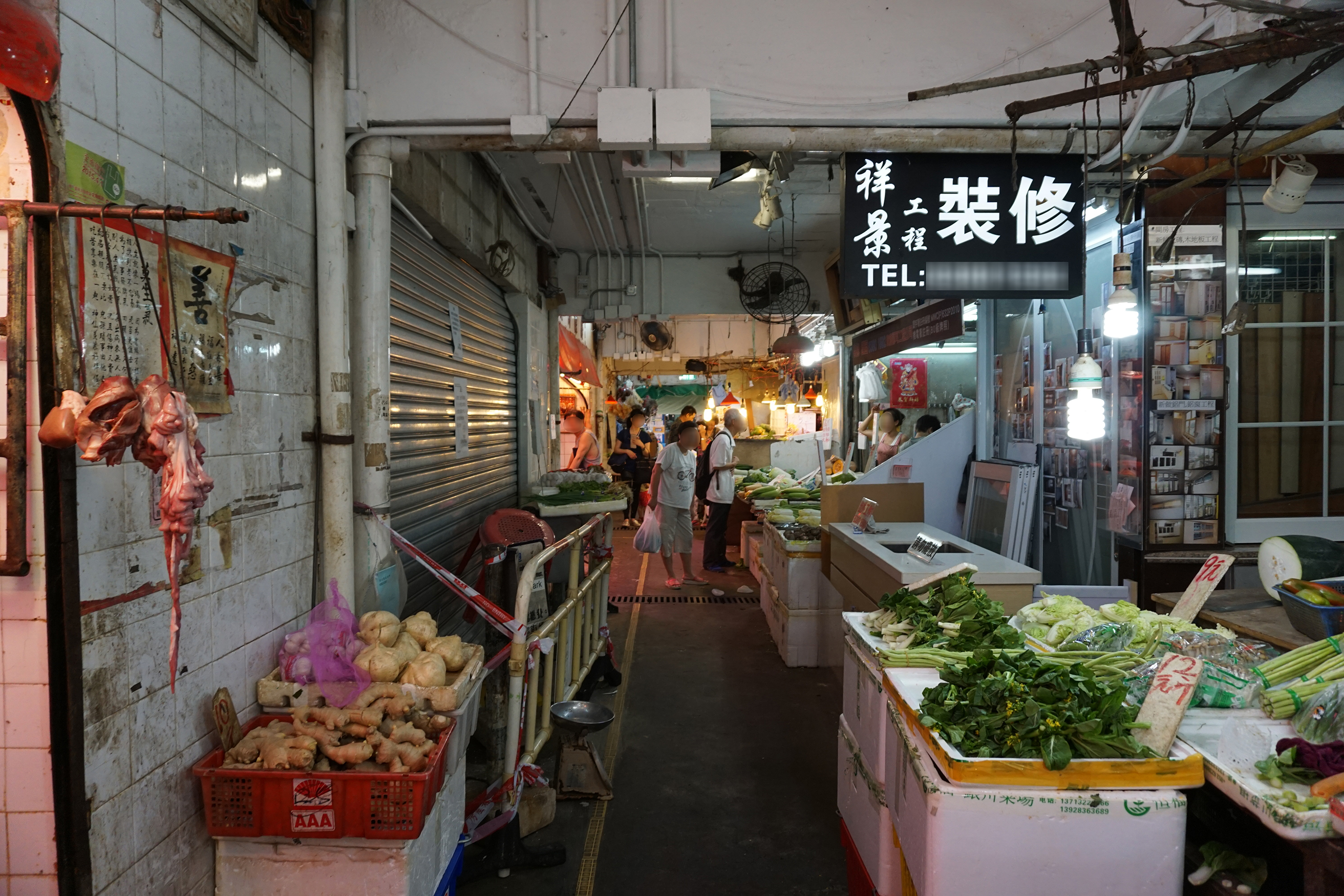 Lai King Market in Lai King, Hong Kong.